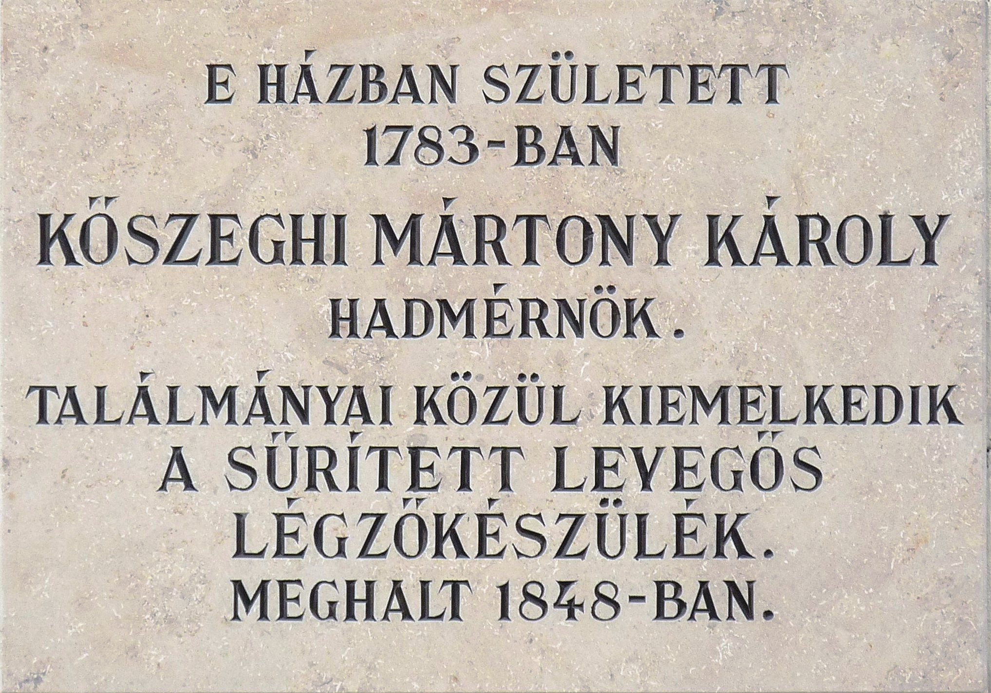 Commemorative plaque to Mr. Károly Kőszeghi-Mártony (1783–1848) Hungarian military engineer, inventor of the compressed air breathing apparatus and the mobile field kitchen. It is affixed to the house where he was born. (Sopron, Hátsókapu Steet Nr 2)